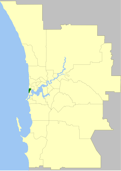 Location of the Local Government Area Town of Cottesloe in Perth, Western Australia